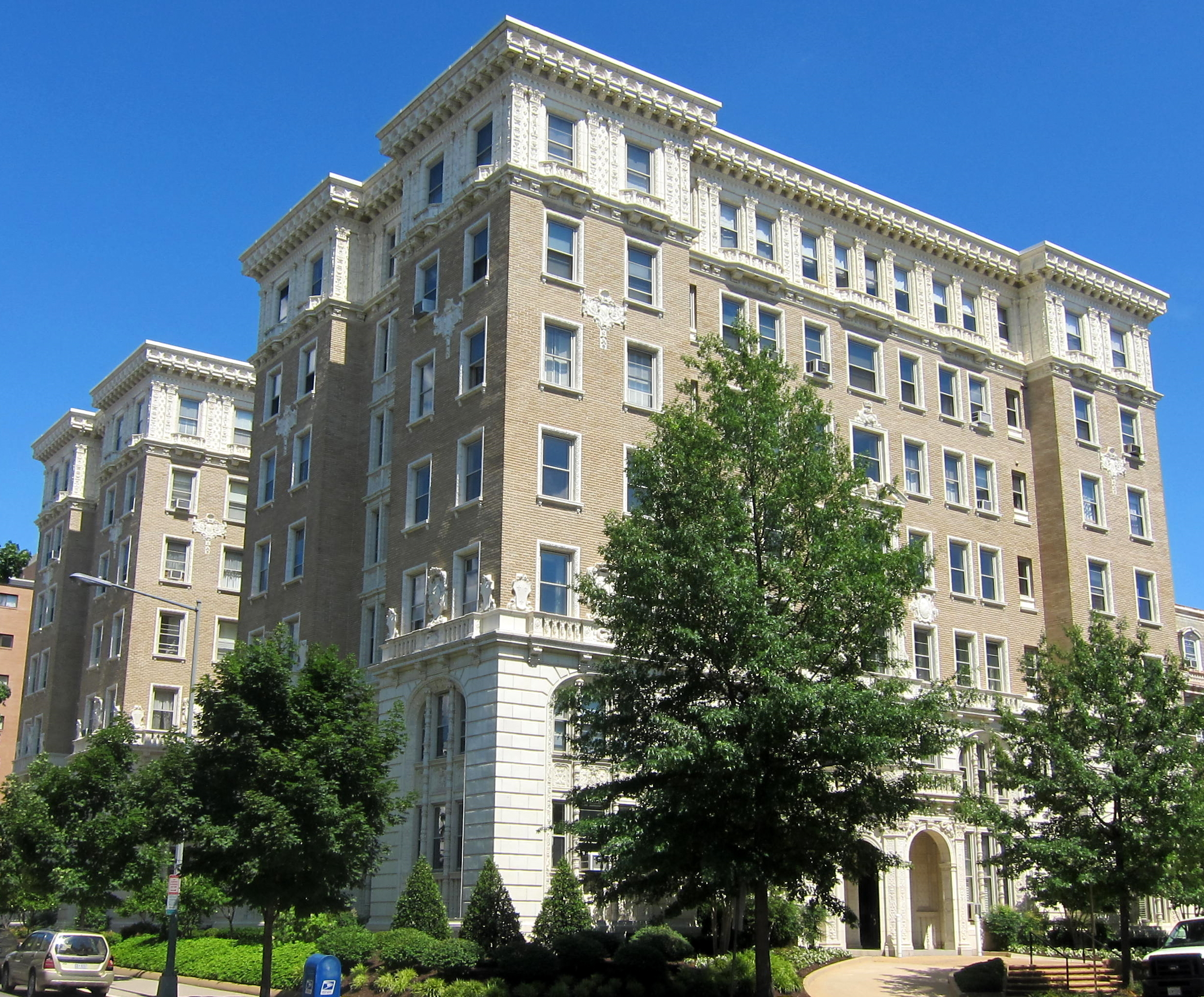 The 2029 Connecticut Avenue condominium located in the Kalorama neighborhood of Washington, D.C. Constructed in 1915–1916, the Beaux-Arts style building was originally known as the Bates Warren Apartment House. It is designated as a contributing property to the Kalorama Triangle Historic District, listed on the National Register of Historic Places in 1987. Notable tenants have included William H. G. Bullard, Joseph Gurney Cannon, Charles S. Deneen, William O. Douglas, Frank Friday Fletcher, Henry D. Flood, William H. Harrison, Lena Horne, Alanson B. Houghton, William M. Ingraham (Assistant Secretary of War), Robert A. Lovett, Alexander Campbell King, George McGovern, Charles B. McVay, Jr., Henry Morgenthau, Jr., John J. Pershing, William E. Reynolds, Edward Everett Robbins, Carol Schwartz, Leslie M. Shaw, George Sutherland, William Howard Taft, Francis E. Warren, and Wallace H. White, Jr..